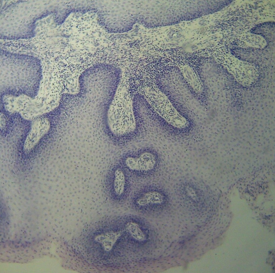 Skin papilloma